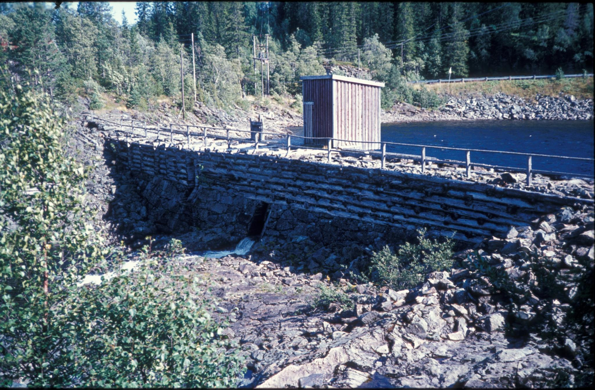 Image Note: Ponds, wooden structures, stones, pond constructions, weed house Bildenotat: Dammer, trekonstruksjoner, stein, damkonstruksjoner, lukehus Date/Dato: 1982-08-01 Photographer/Fotograf: Henrik Svedahl, NVE Feel free to use the photos, but please make sure you attribute the photographer and mention NVE as the source. Bruk gjerne bildene, men vennligst oppgi fotografens navn og angi NVE som kilde. Format: Dias Archive/Arkiv: Hydrologisk arkiv Image ID/Bilde ID: NVE.Sve-1-0036